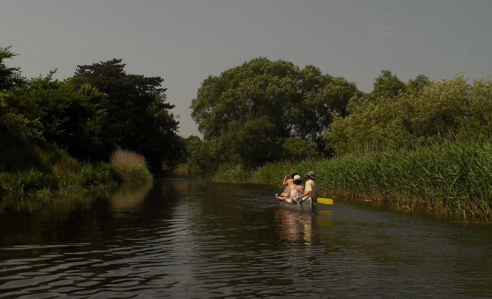 Canoeing on Susåen.